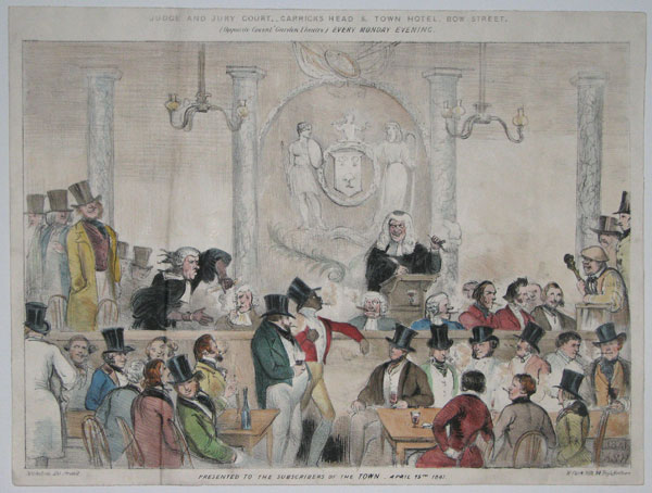 Drawing of the Renton Nicholson's Judge and Jury Society